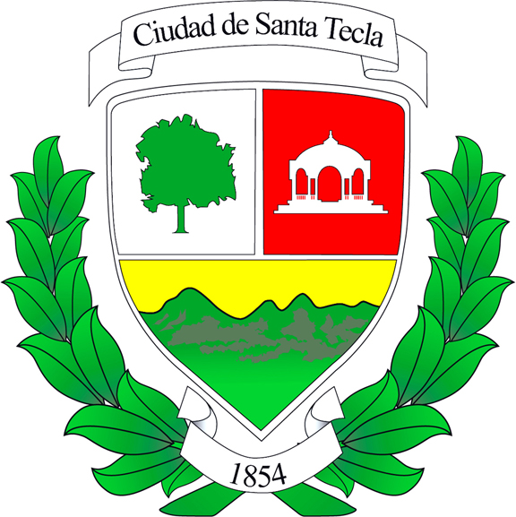 Escudo de Santa Tecla